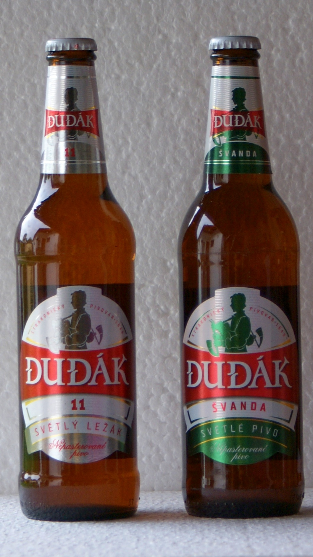 Bottles of light Lager beer Dudák 11 and light draught beer Dudák Švanda 10 from Strakonice brewery